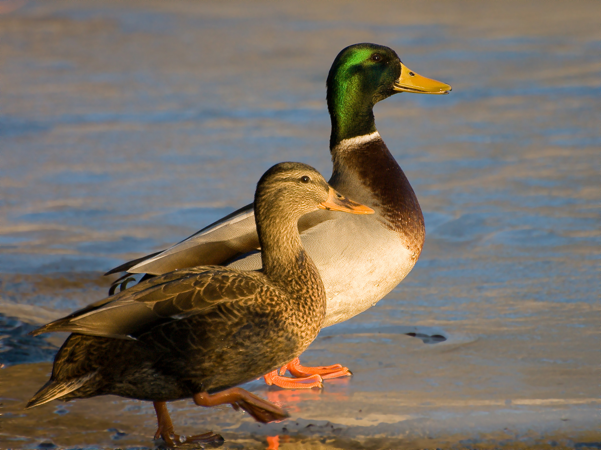 Two Mallard ducks (Anas platyrhynchos). Male and female.